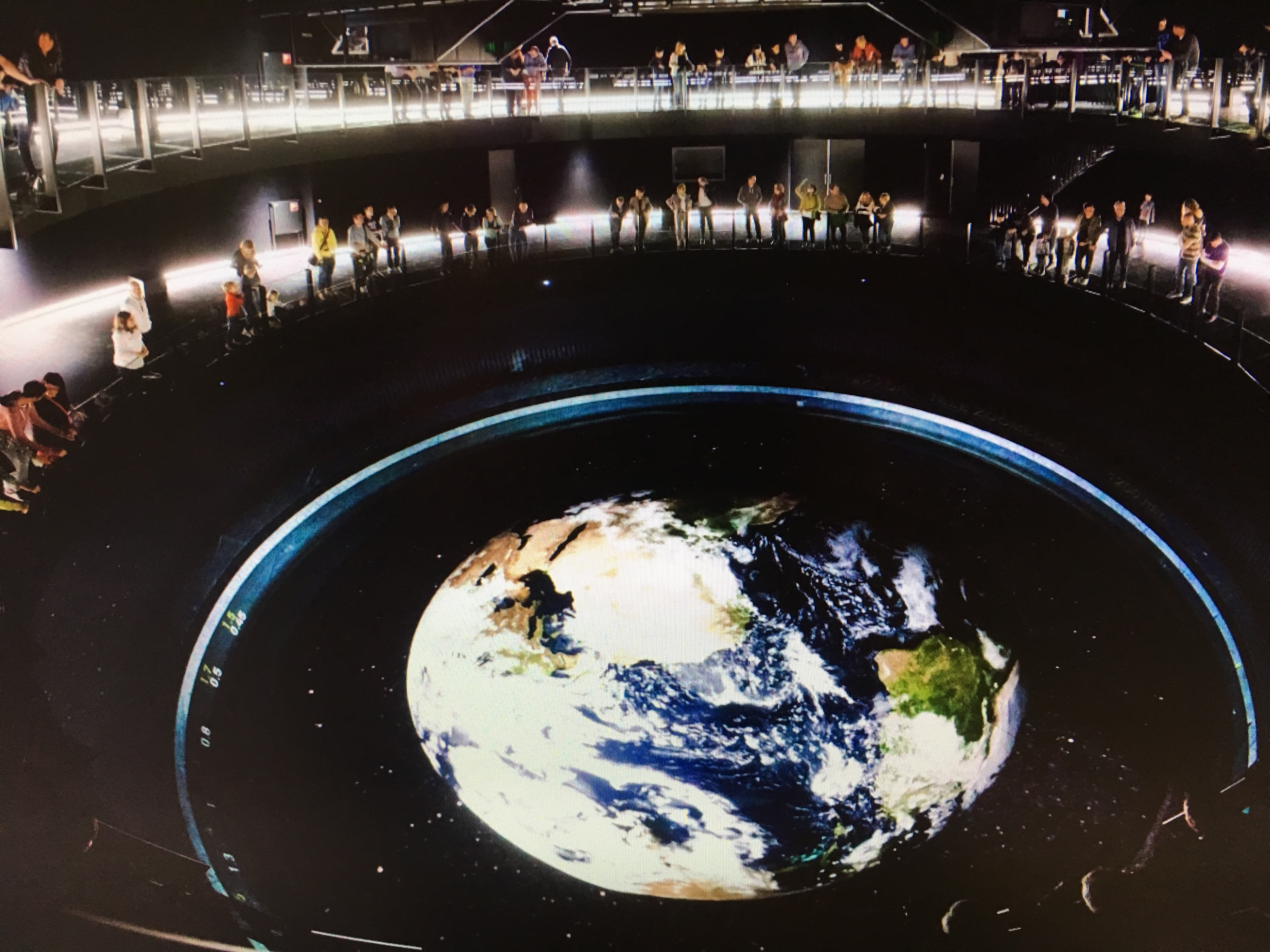 Columbus earth center in Kerkrade